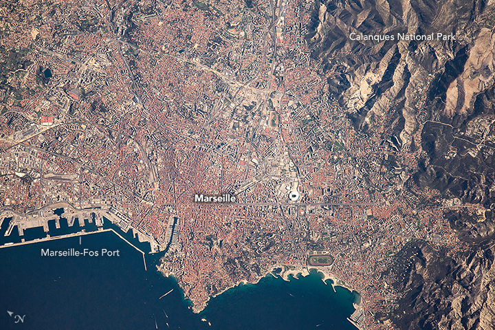 An astronaut aboard the International Space Station (ISS) shot this photograph of Marseille, the second largest city in France. Known as Massalia in the days of the Roman Empire, the city sits along the Mediterranean coast. From above, Marseille has a distinct red hue due to the clay terra cotta tiles covering the roofs of most buildings. Clay deposits are mined locally in Var, northeast of Marseille. Those signature roof tiles have influenced architectural styling in parts of Australia and New Zealand since the late 1800s. The international spread of French culture and products can be attributed to Marseille’s coastal location. The city has been a major trading port since 400 BC, and the current Port of Marseille-Fos serves as the second largest port on the Mediterranean Sea. Today, the city is known for international trade and commerce of hydrocarbon products, iron, steel, ships, construction materials, alcohol, and food. Adjacent to Marseille lies Calanques National Park, Europe’s first peri-urban national park—it is located at the transition between town and country. Founded in 2012, the park encompasses both land and water, while protecting the region’s natural landscapes, terrestrial and marine biodiversity, and cultural heritage. Astronaut photograph ISS050-E-51867 was acquired on February 19, 2017